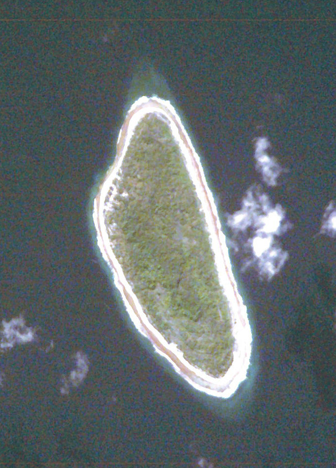 Tepoto North I, Disappointement Is, Tuamotu Archipelago, French Polynesia